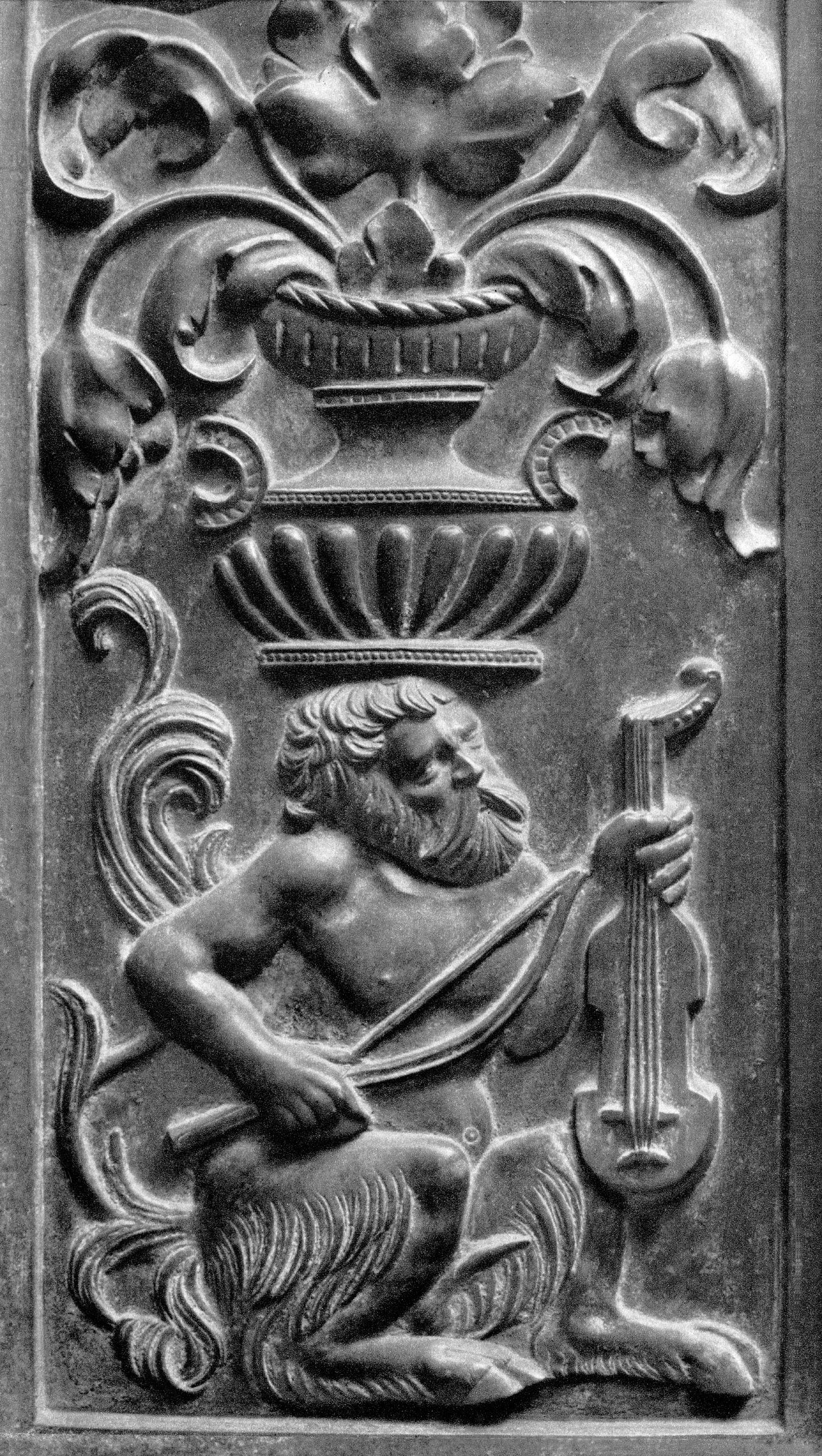 Detail from the Sigismund's Chapel of Cracow Wawel Cathedral.